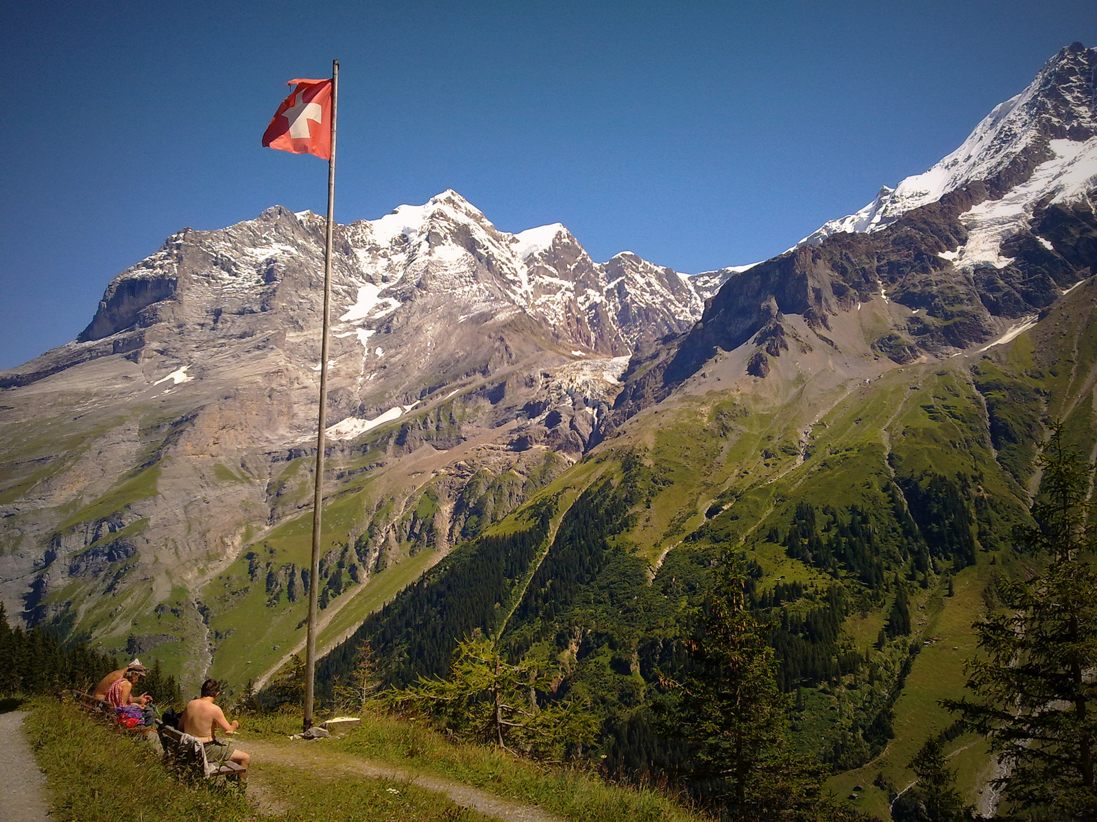 Bernese Oberland, Switzerland